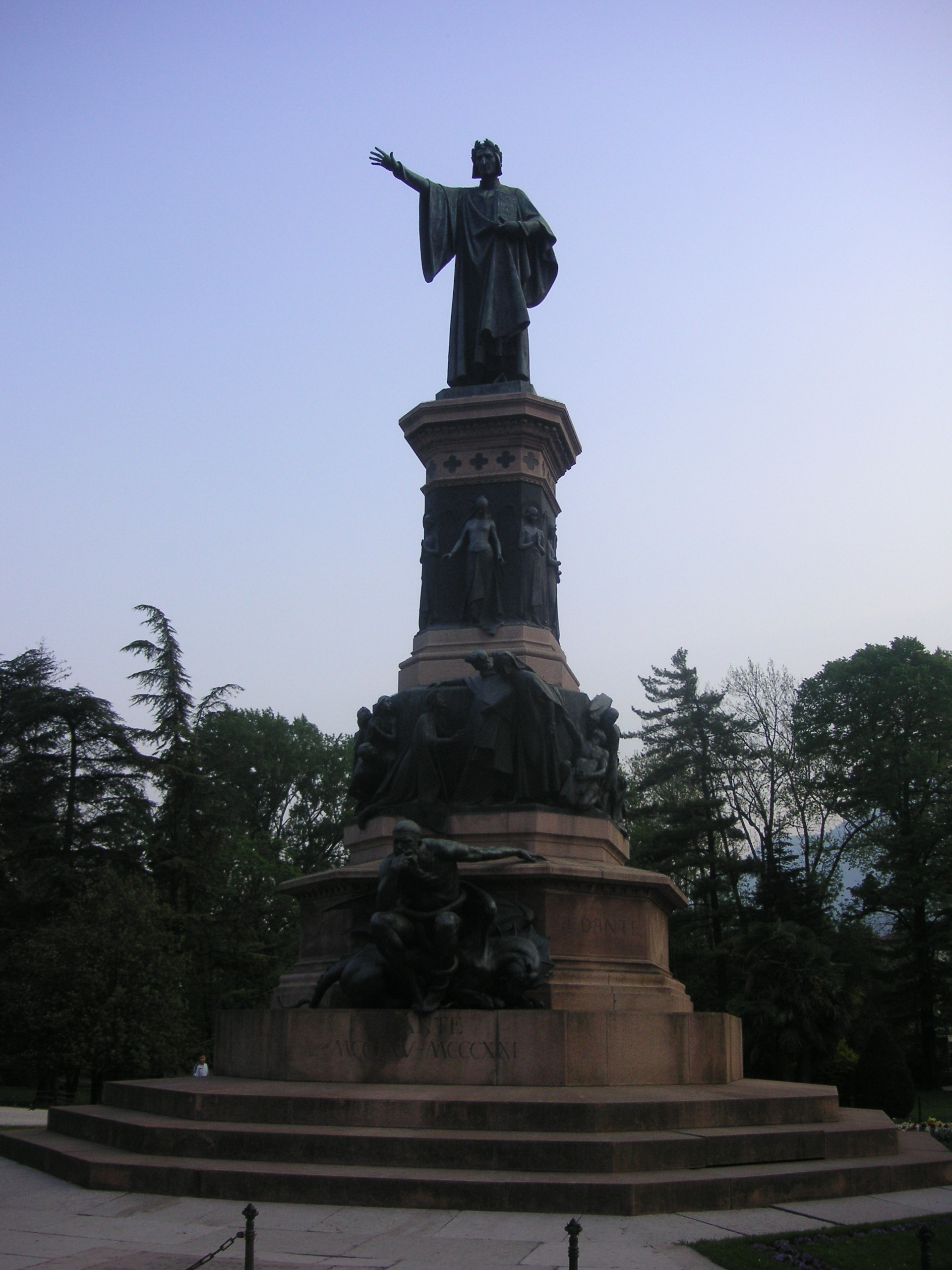 Statue of Dante Alighieri in Trento, work of Cesare Zocchi (1851 - 1922)